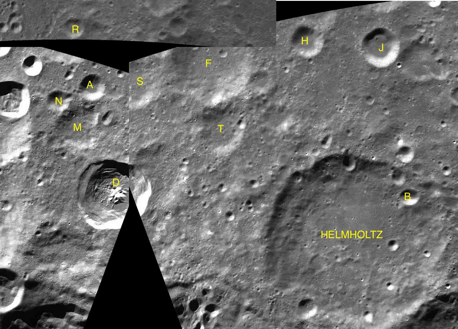 Parts of the charts LAC-128, LAC-138, LAC-139 used for the presentation